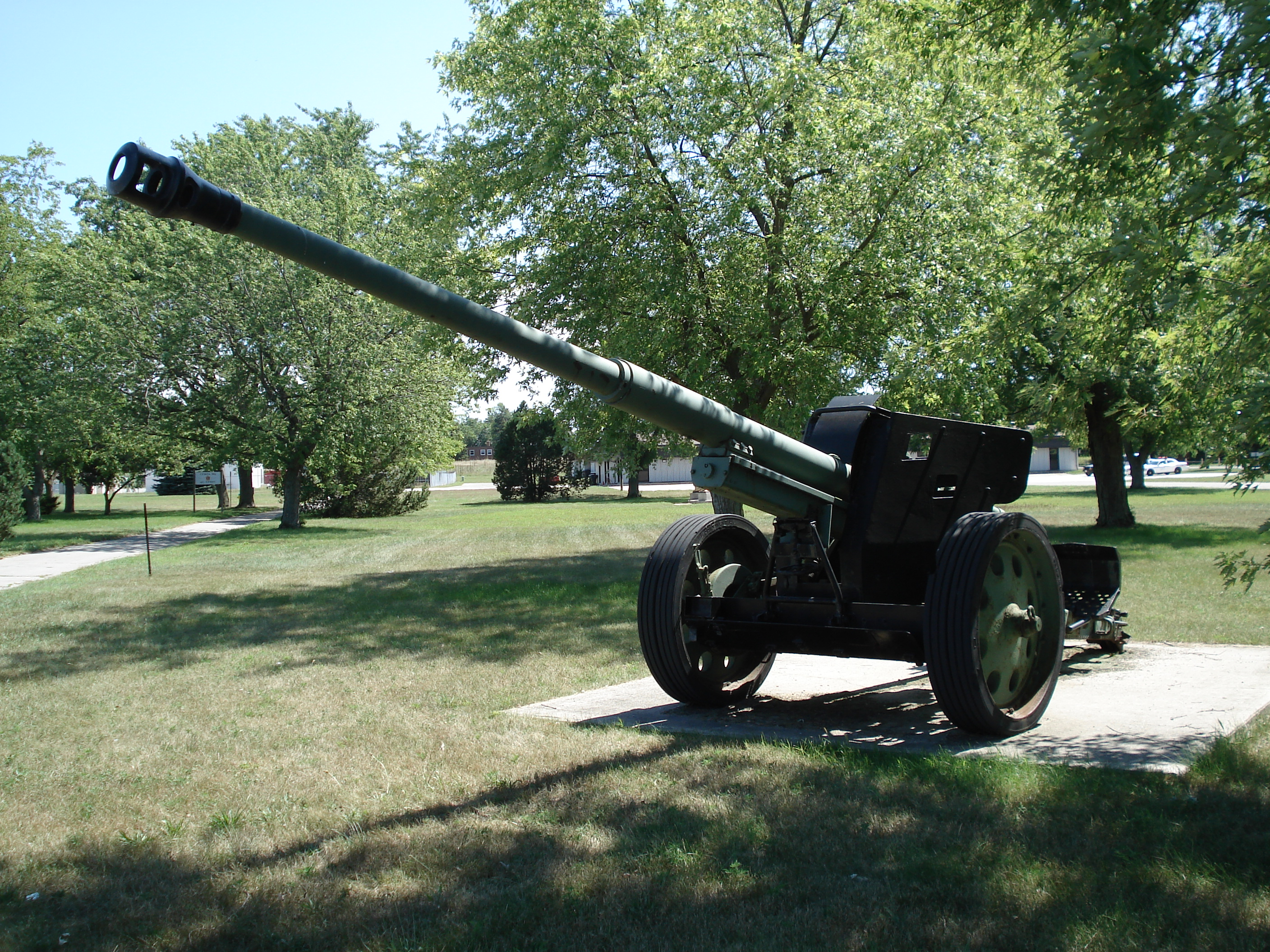 German PaK 43/41 88 mm anti-tank gun, displayed on the grounds of CFB Borden (Base Borden Military Museum). Photo taken on August 12, 2006. Source: Photo by me, User:Balcer.